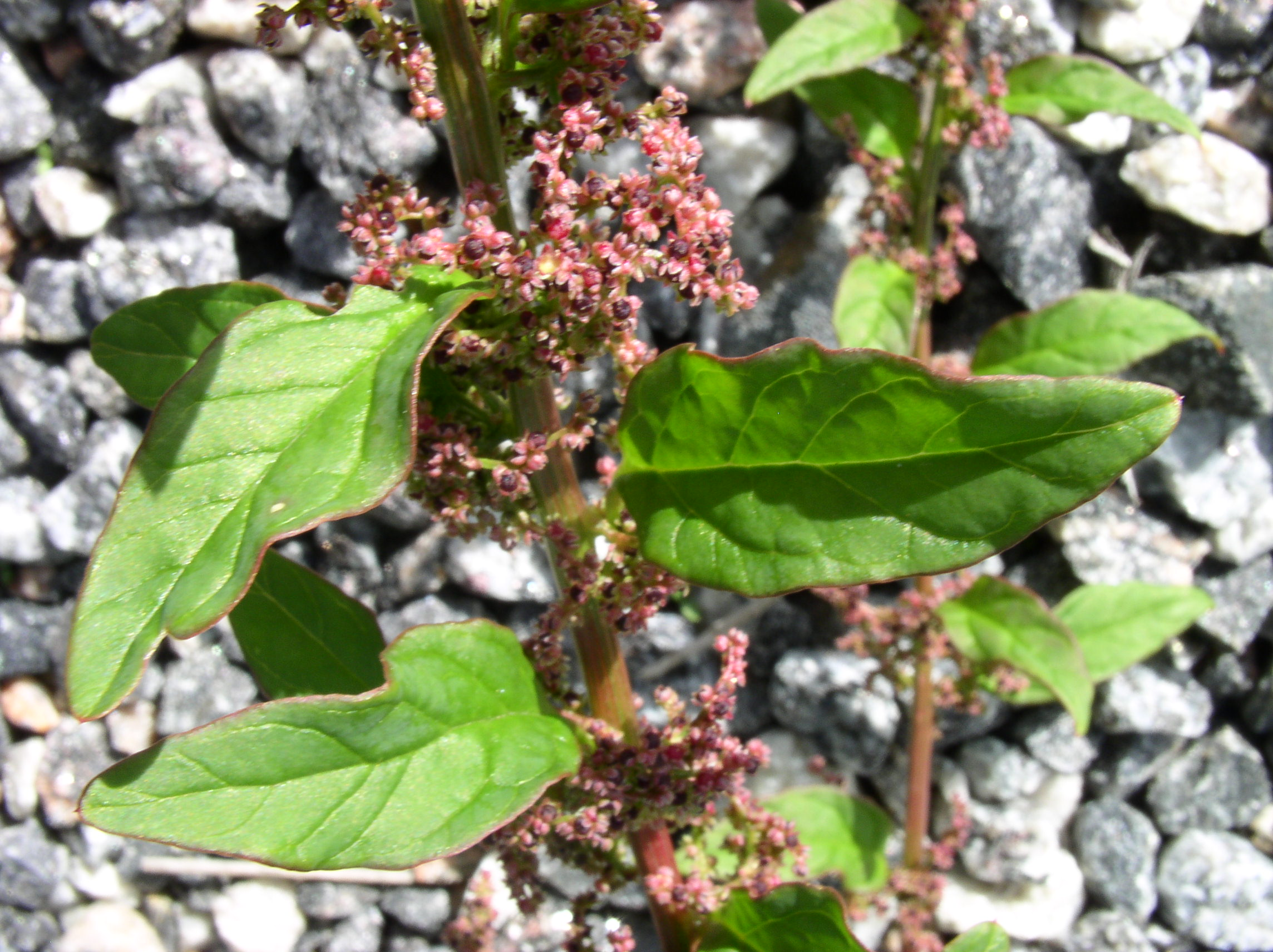 Chenopodium polyspermum (Many-seeded Goosefoot) leaves and flowers in Turku, Finland.